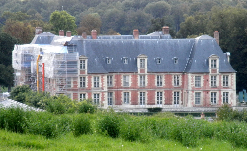 Castle of Grignon, 78850 Thiverval-Grignon, France